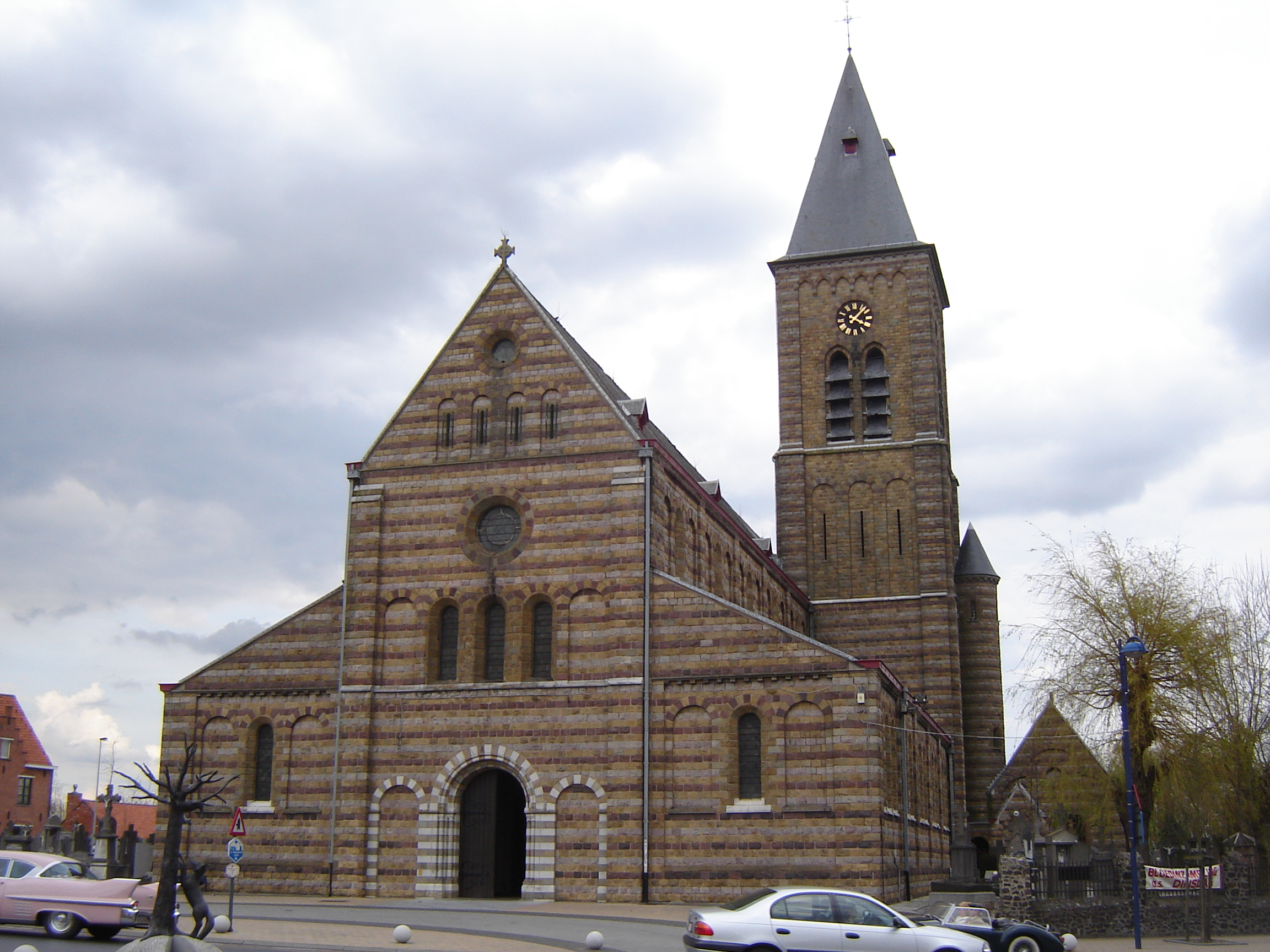 Church of Saint Audomar in Passendale. Passendale, Zonnebeke, West Flanders, Belgium